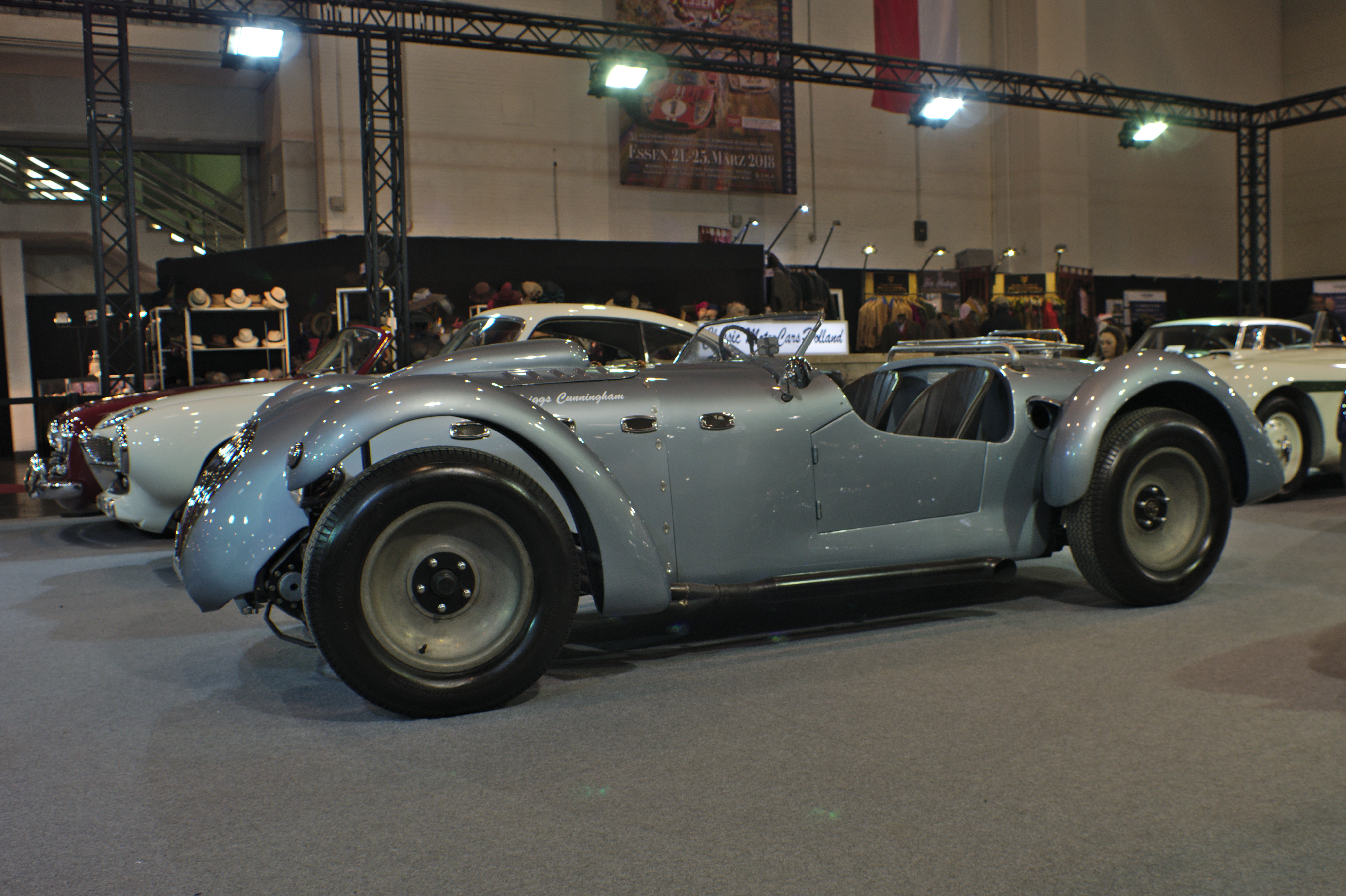 Briggs Cunningham's 1950 Healey Silverstone at the Techno Classica 2018. He fitted the new overhead valve Cadillac V8 engine into it, finishing 1st and 2nd at the Watkins Glen Sports Car Grand Prix in September 1950 with Phil Waters.